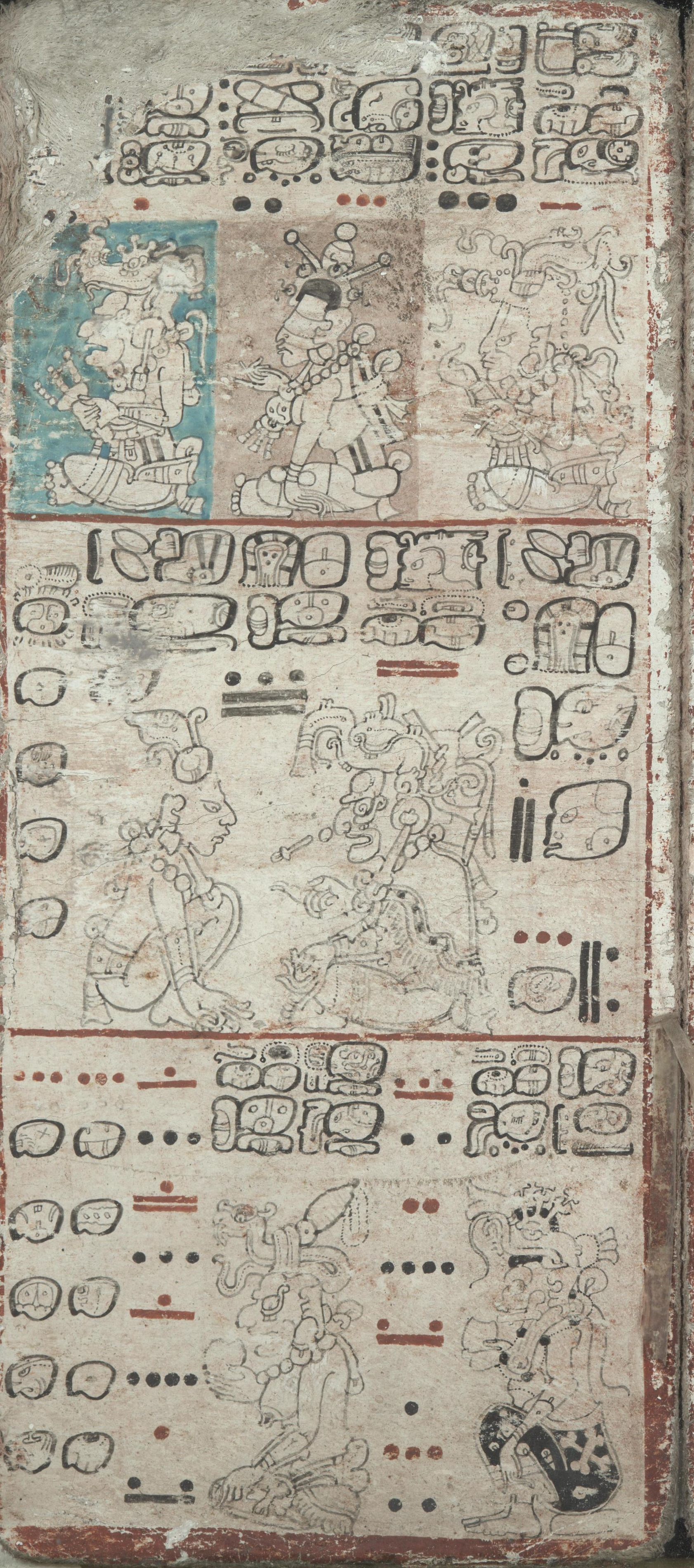 Codex Dresdensis page 9, true colour, from the library website